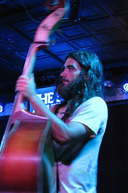 Christian Cardiello of the Blind Owl Band playing at The Saint in Asbury Park, NJ, on July 18, 2013. Photo by LHCollins.